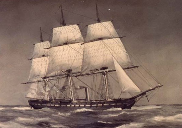 From U.S. Navy public domain Photo #: NH 85568-KN (Color) USS Wabash (1856-1912) Wash drawing in grey tones by Clary Ray, circa 1900, showing the ship under steam and sail. Courtesy of the Navy Art Collection, Washington, DC. U.S. Naval Historical Center Photograph.